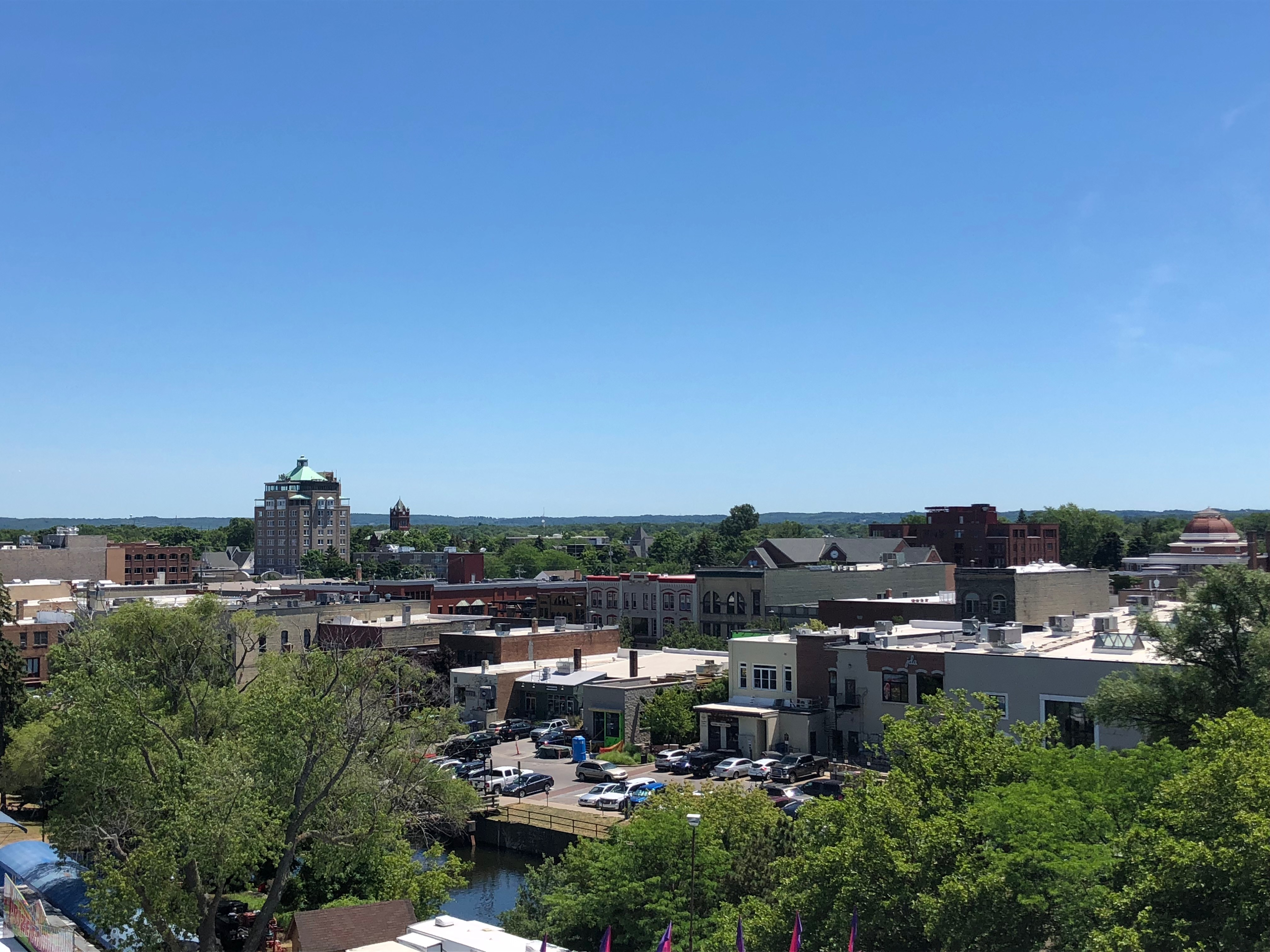 Traverse City, Michigan skyline from the Open Space on July 7, 2018